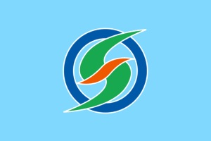 Flag of Shika Ishikawa